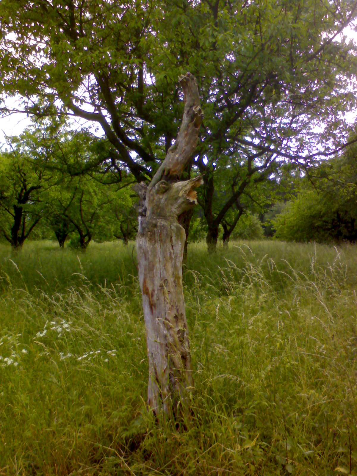 stub of cherry-wood